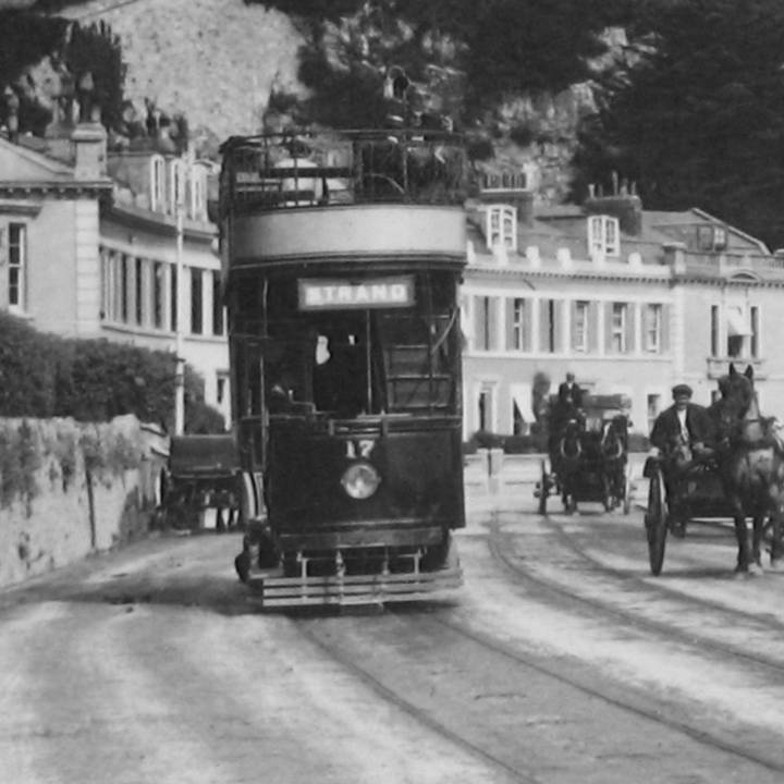 Torquay Tramways car number 17 heading along Torbay Road sometime between 1907 and 1911 when it was powered by the Doulter stud system until 1911 - the covers for the studs can be seen between the rails.